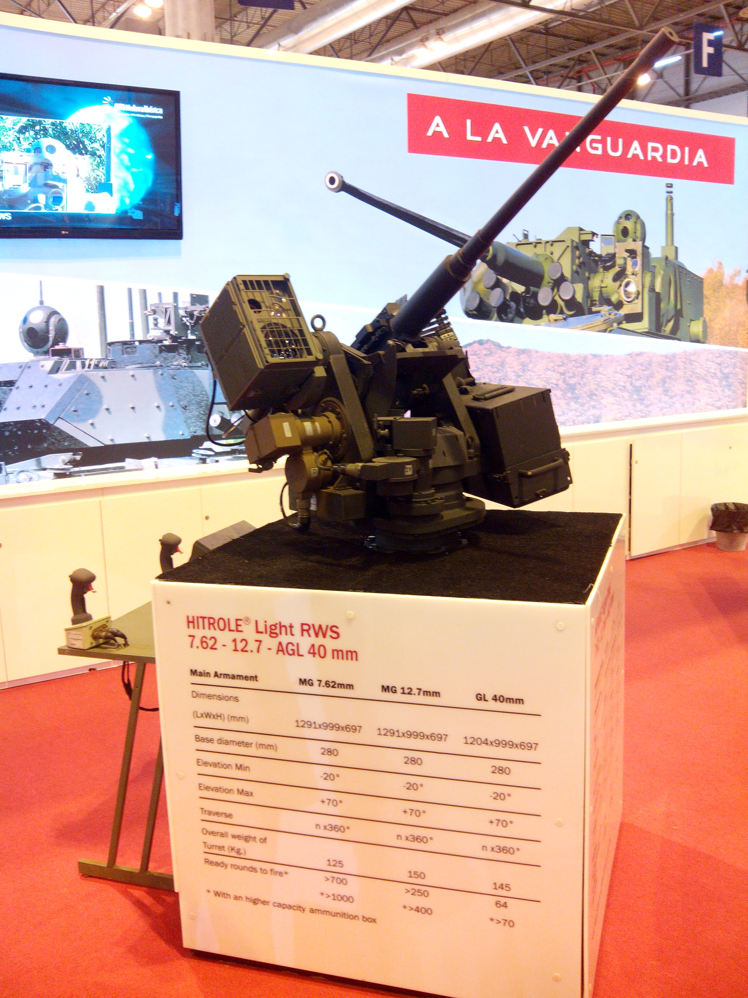 hitrole remote weapon systems 7.62 12.7 light